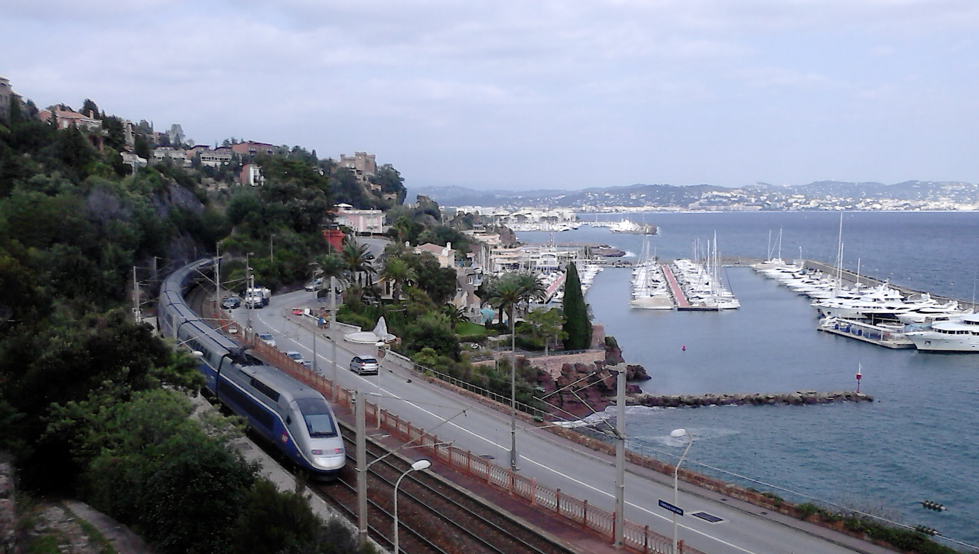 TGV Duplex goes to Nice, crossing Théoule-sur-Mer station in Marseille–Ventimiglia railway , France.